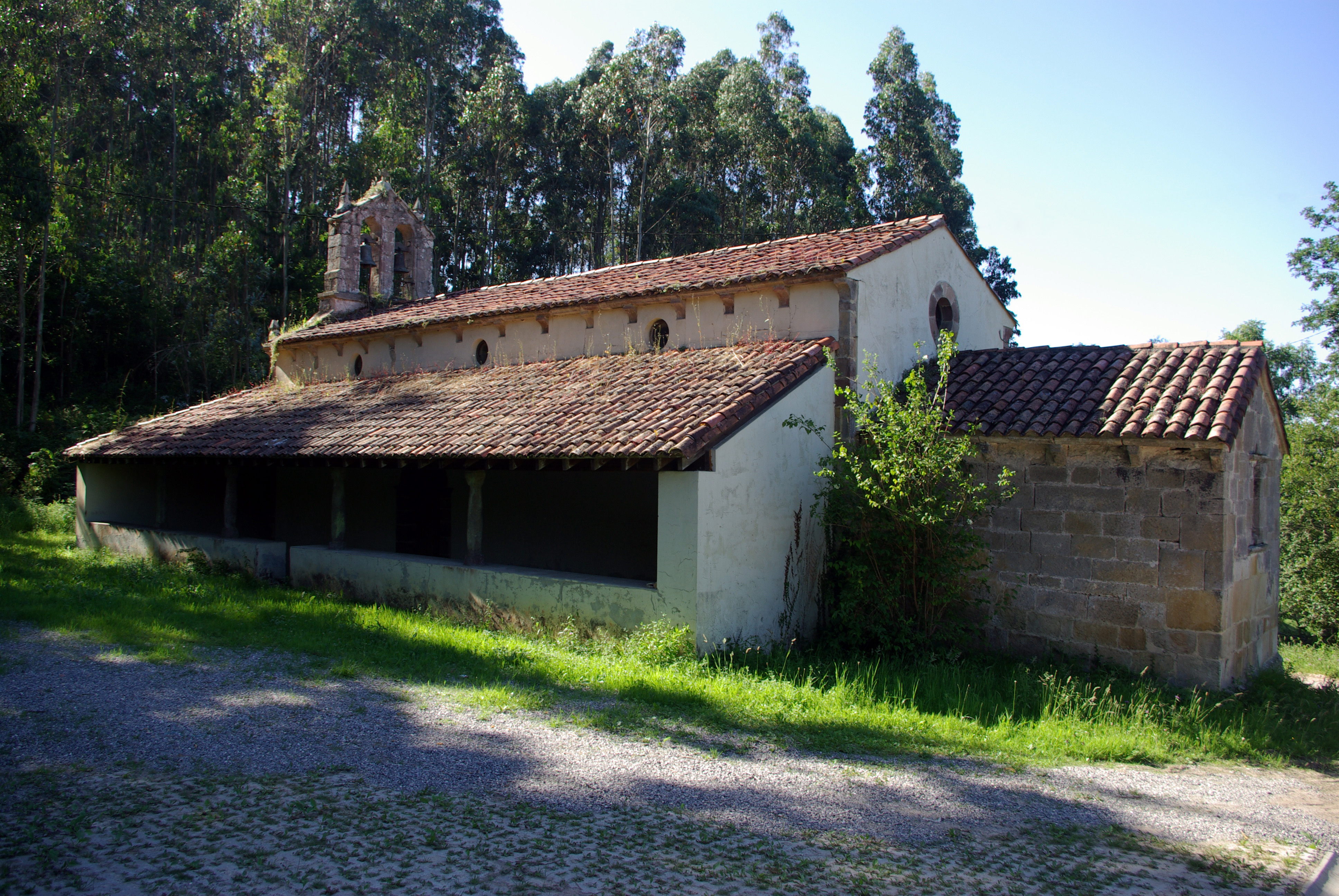 Saint Mary church in Sebrayo, Villaviciosa (Asturias, Spain).